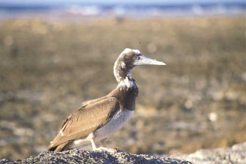 An older juvenile Brown Booby (Sula leucogaster) with most of its flight feathers in stands on a rock on Takutea Island, Cook Islands.